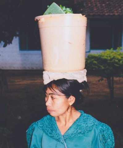 Woman with bucket on her head from Indonesia.